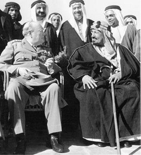 Churchill and King Abd al-Aziz of Saudi Arabia in 1945